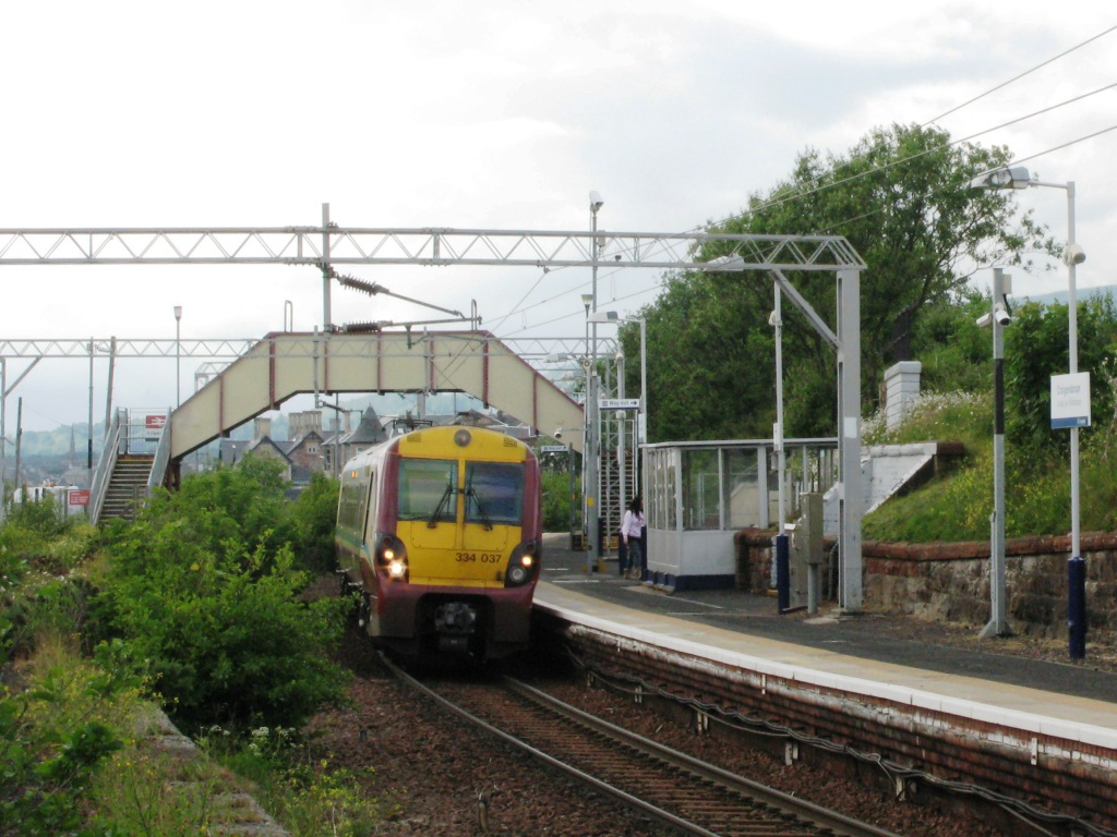 334037 calls at Craigendoran station, the first stop on its cross-Scotland journey from Helensburgh to Edinburgh.